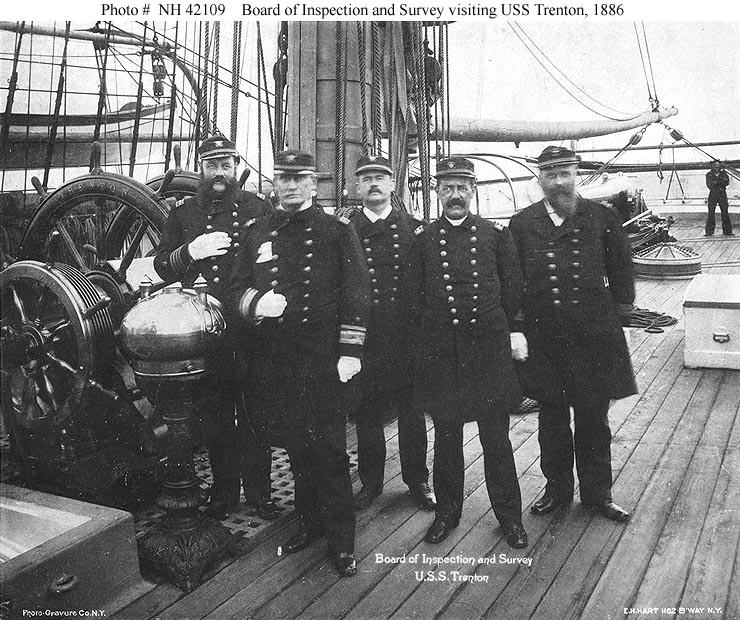 The Navy's Board of Inspection and Survey visits the USS Trenton in 1886. From left to right: Captain Robert F. Bradford; Rear Admiral James E. Jouett, President of the Board; Commander Henry C. Taylor; Chief Engineer Philip Inch; and Naval Constructor Philip Hichborn..